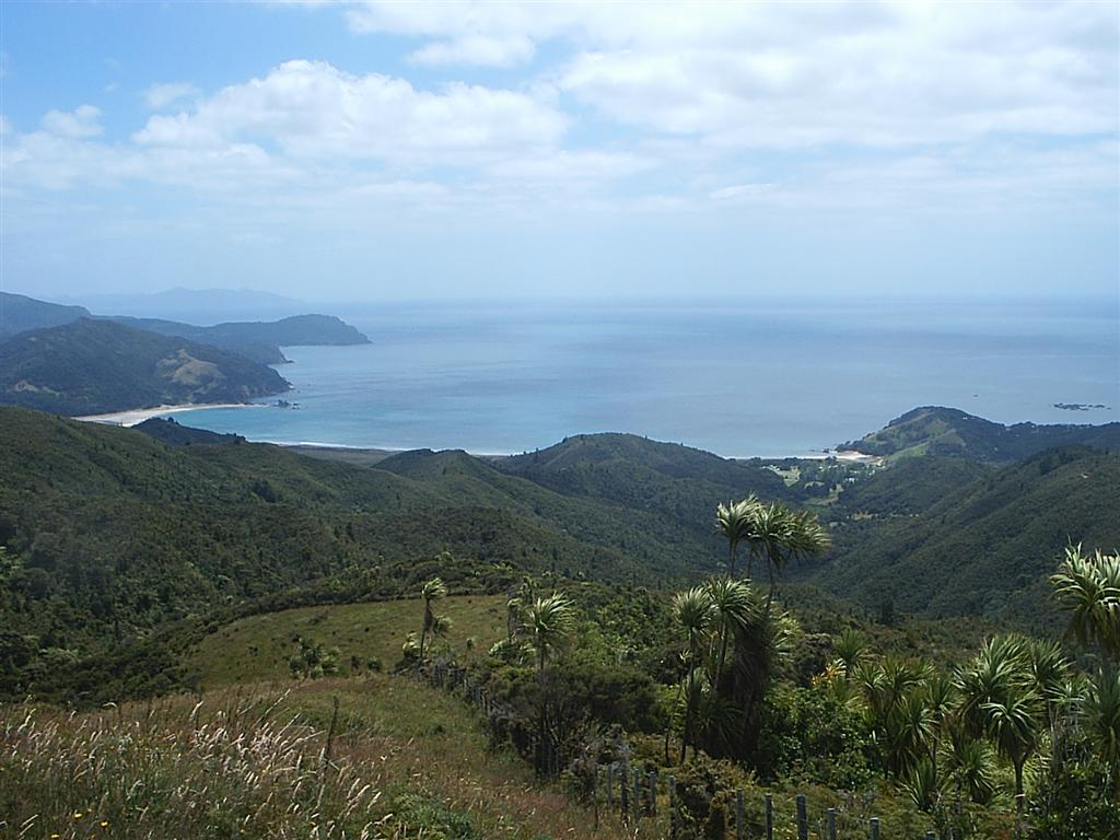 Looking out over Waikawau Bay, Coromandel Peninsula, New Zealand